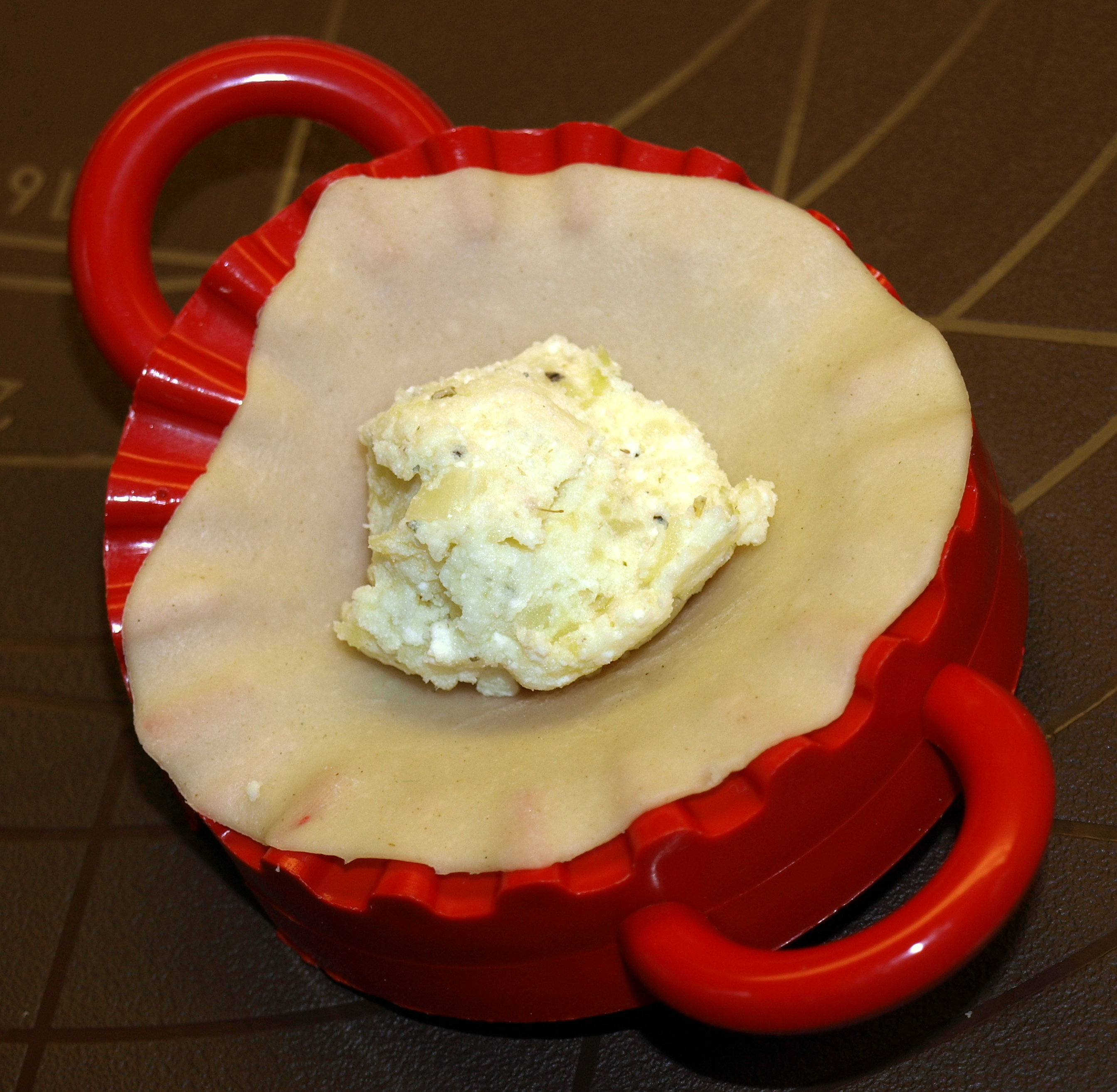 Placing the filling in a pocket of dough.